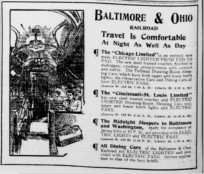 Newspaper ad from 1910 for travel from New York City aboard the Baltimore and Ohio RR.